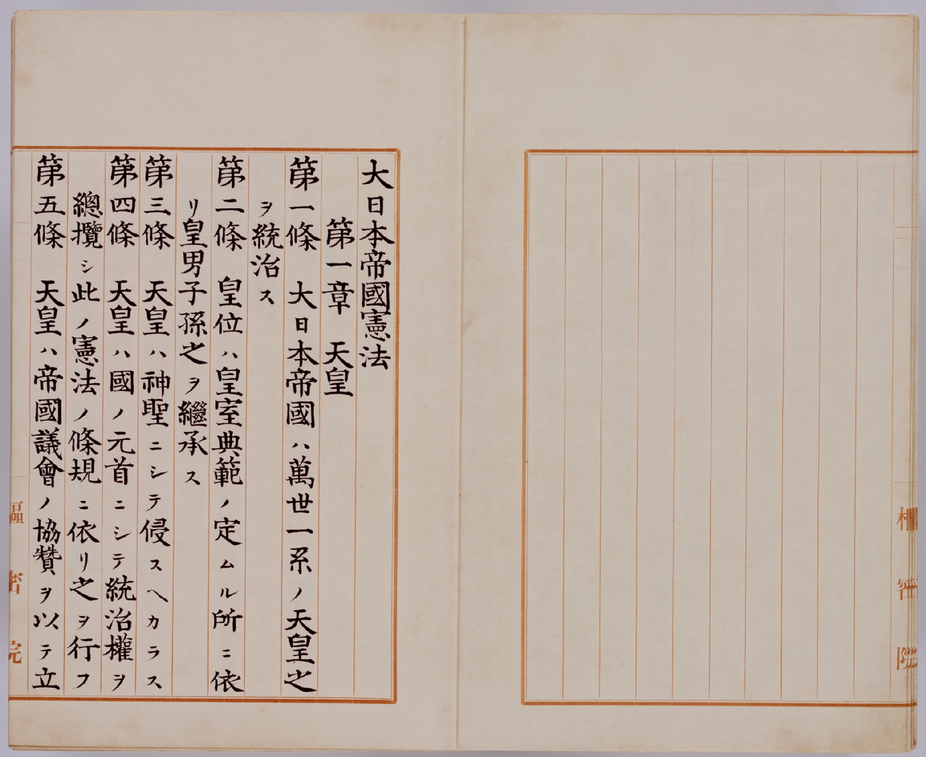 Meiji Constitution (page 4)